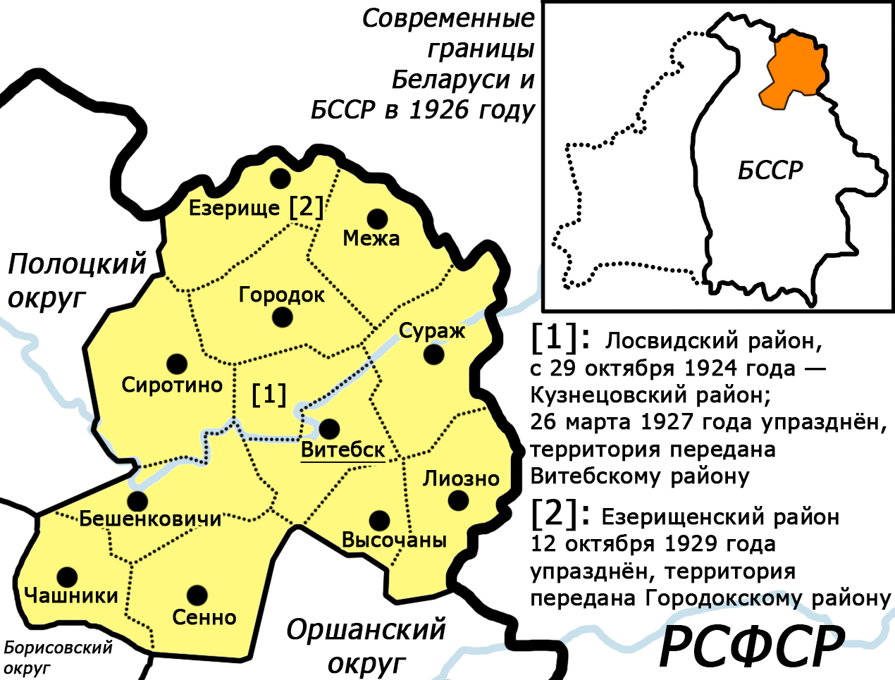 Viciebsk (Vitebsk) county in Belarusian SSR, 1924—1930